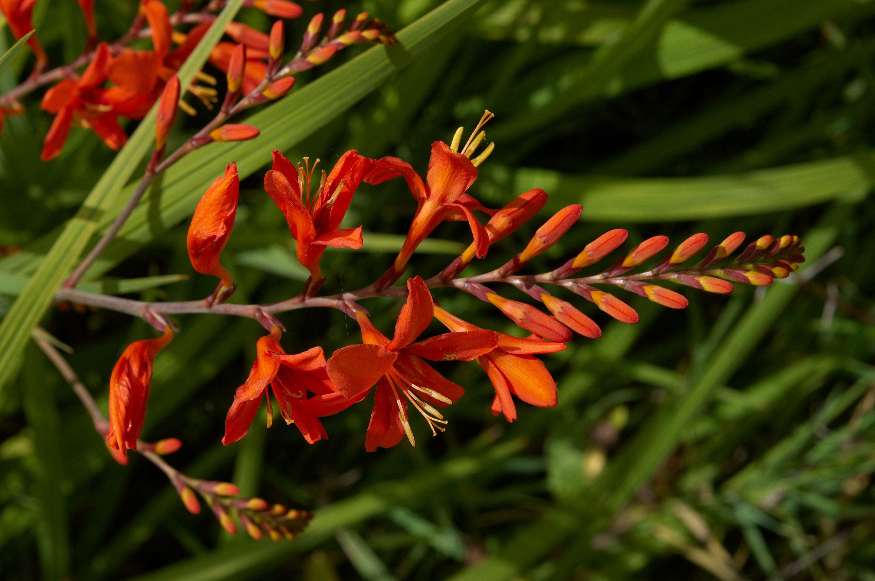 Crocosmia 'Lucifer'